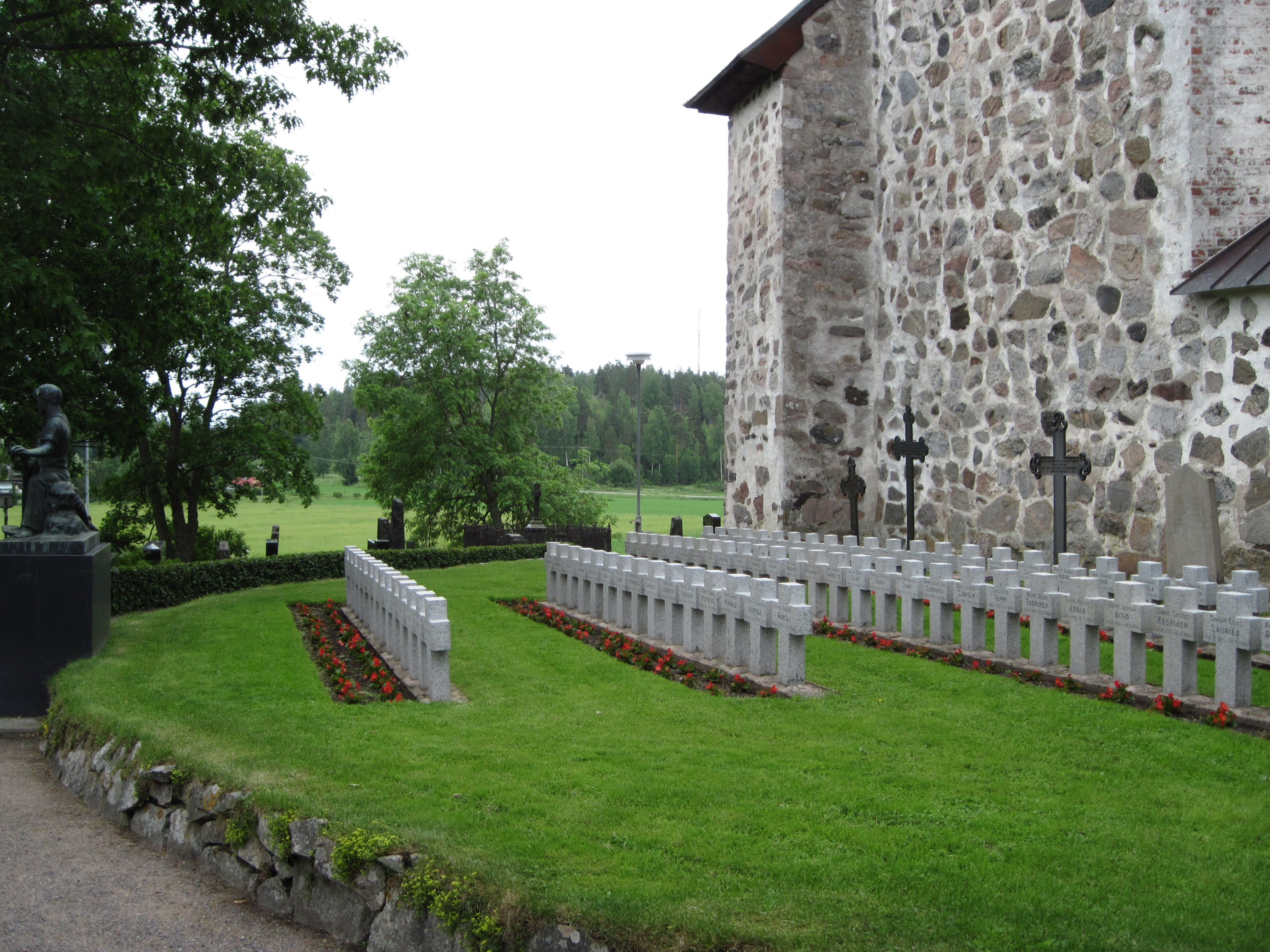 Military cemetary at church in Sauvo, Finland